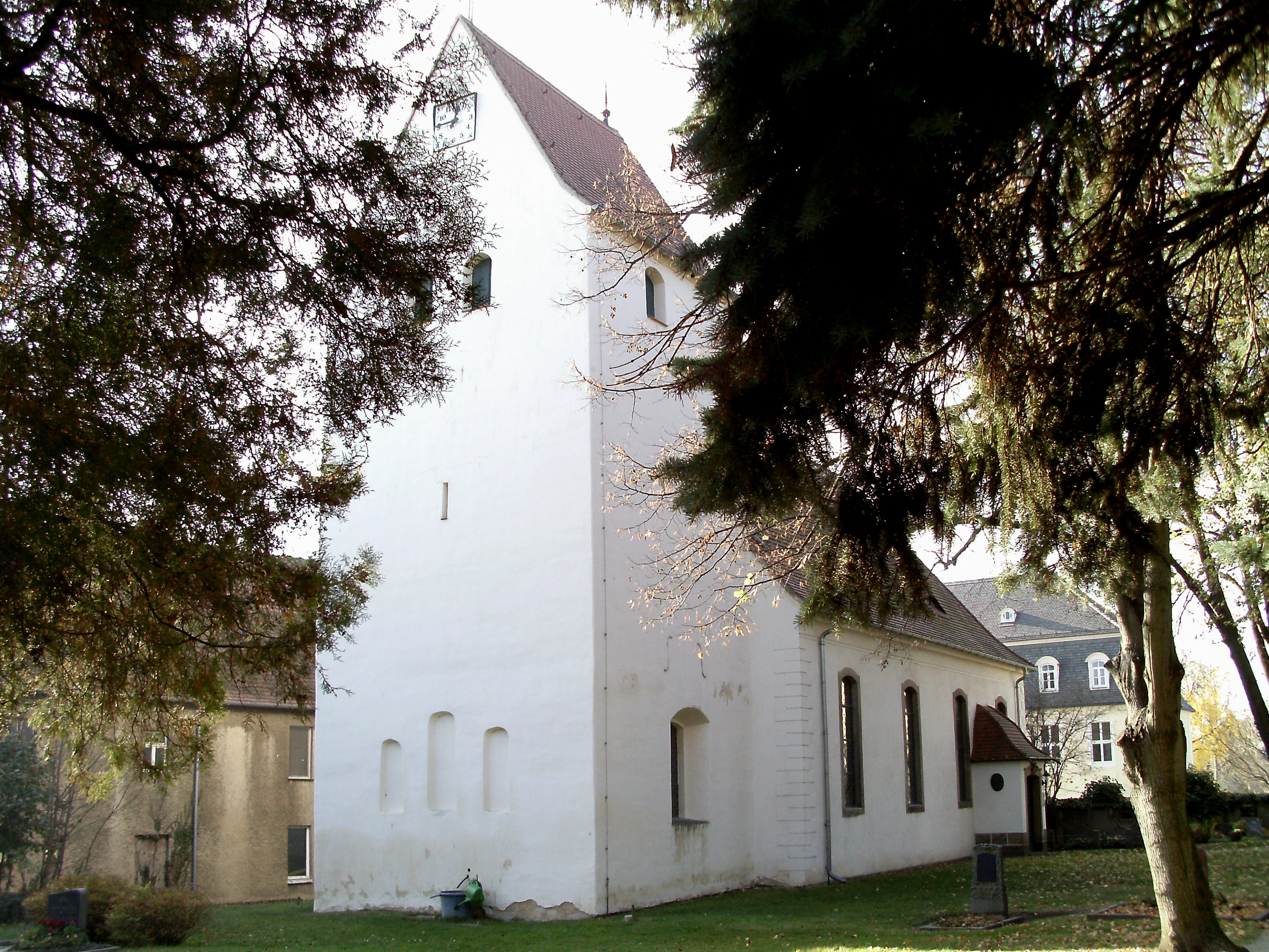 Church of the village of Ermlitz (Schkopau, district of Saalekreis, Saxony-Anhalt)